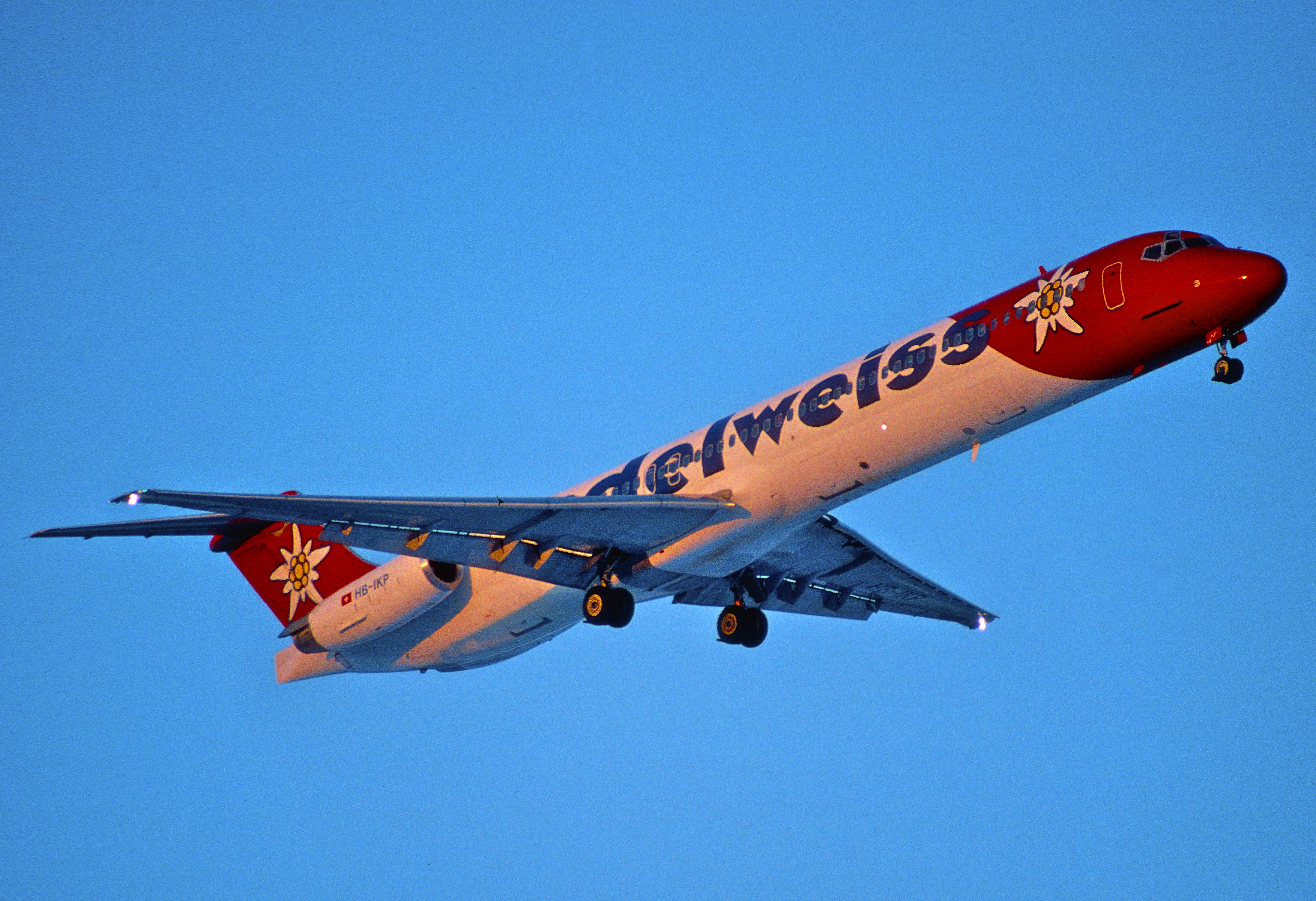 First flight: March 28, 1989...(c/n 49629/ 1583) 15/05/1989 Oasis International Airlines EC-269 23/06/1989 Oasis International Airlines EC-EOY 04/11/1990 Aerocancun VR-BMI 14/10/1992 Private Jet Expeditions VR-BMI 29/05/1993 Oasis International Airlines VR-BMI 16/12/1993 Oasis International Airlines EC-525 03/03/1994Oasis International Airlines EC-FVC 14/02/1997 Edelweiss Air HB-IKP 19/03/1999 Spanair EC-HBP stored 04/2006 14/08/2006 MAP Executive Flight Service OE-LRW stored 06/2010